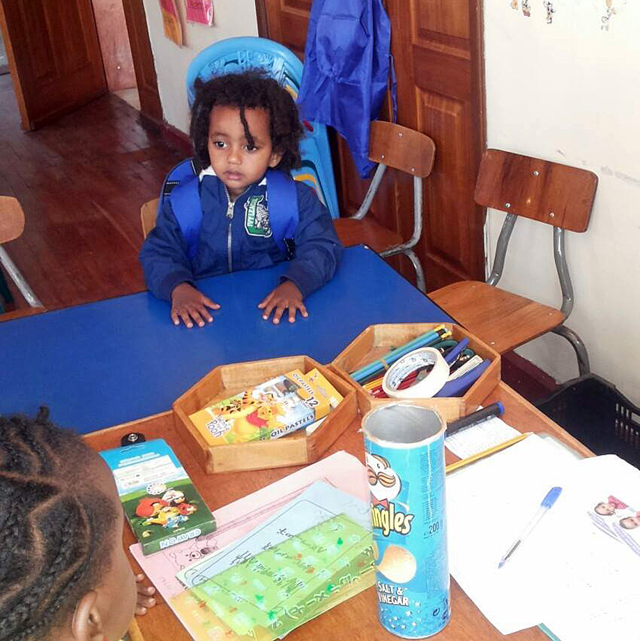 First day at school at the age of three (Stephen Brook from Addis Ababa) This is an image with the theme "Play" from: Ethiopia